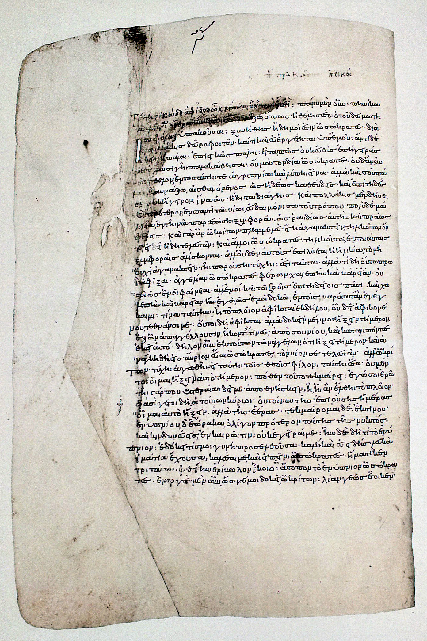 Page of the Codex Oxoniensis Clarkianus 39 (Clarke Plato). Dialogue Kriton.